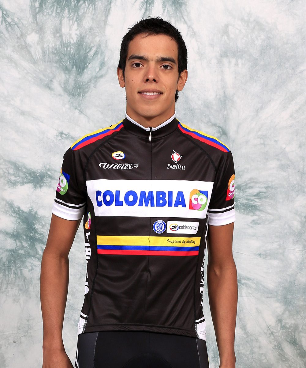 Jarlinson Pantano, Colombian cyclist member of the team Colombia in 2013